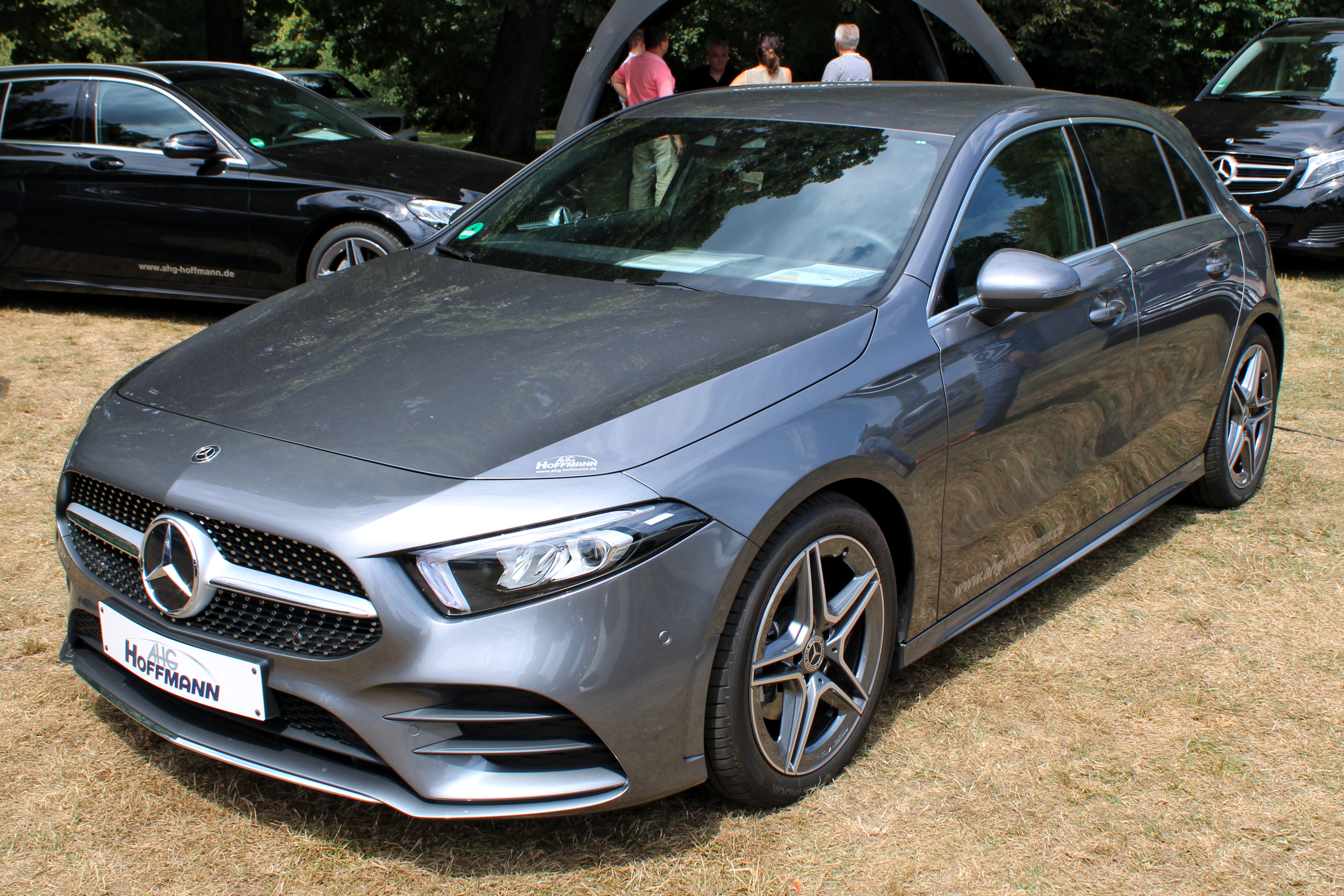 Mercedes-Benz A 200 at schloss Monrepos